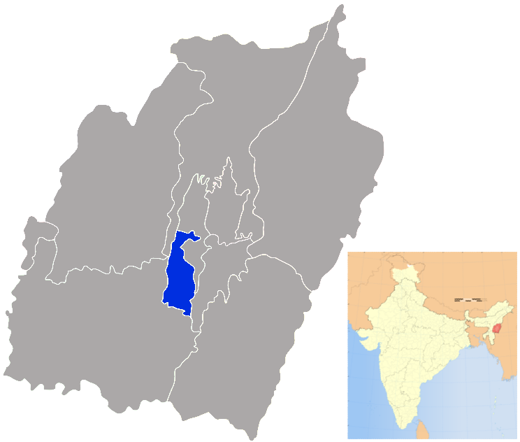 Bishnupur district in Manipur